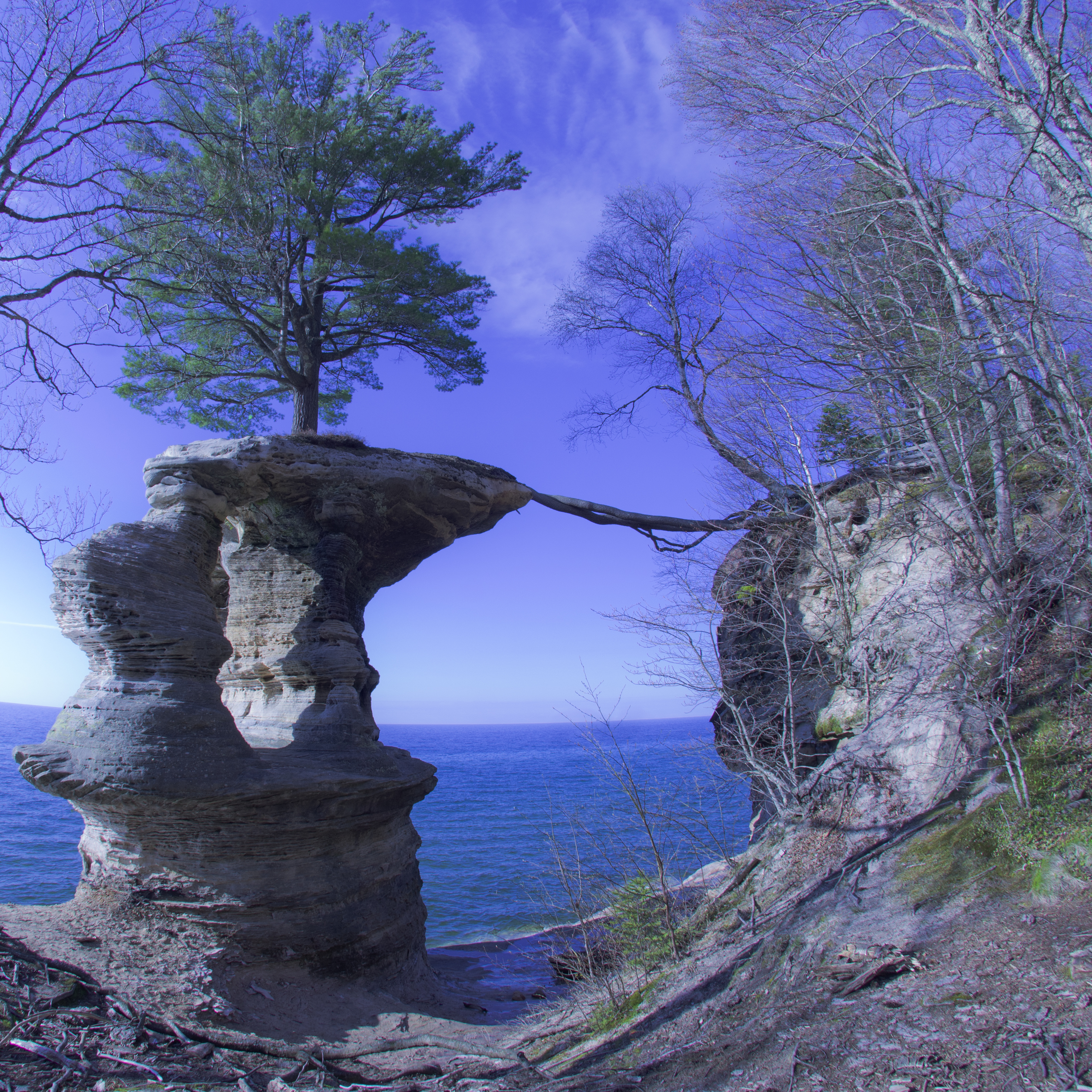 Formerly a natural arch, the archway having collapsed in the 1940s. Photo is of the southern side as seen from the Lakeshore-North Country Trail.